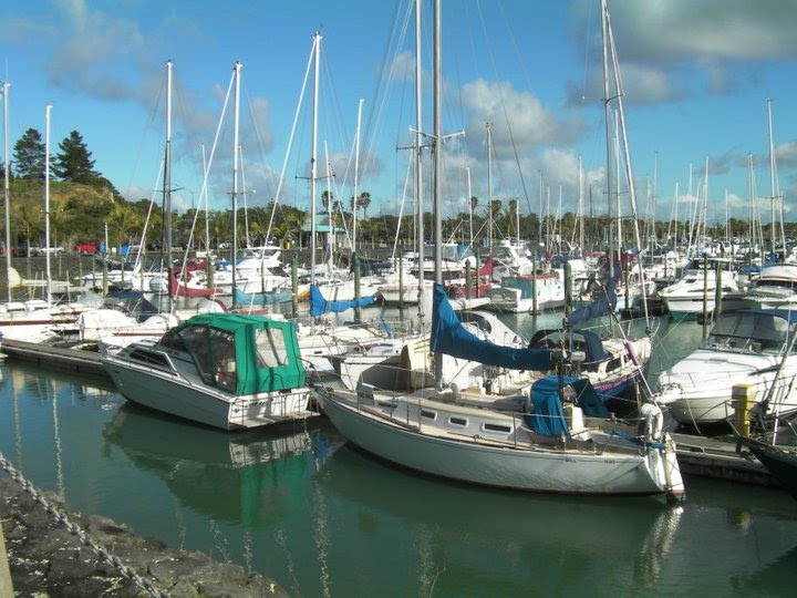 Pine Harbour Marina in Beachlands, Auckland, New Zealand. A ferryboat takes commuters to the downtown area and takes about half an hour. This picture is public domain from An American's perspective on New Zealand (see notice at top of article). Questions? Ask here.